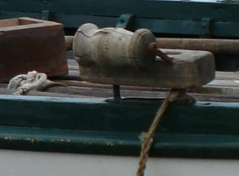 cropped version of